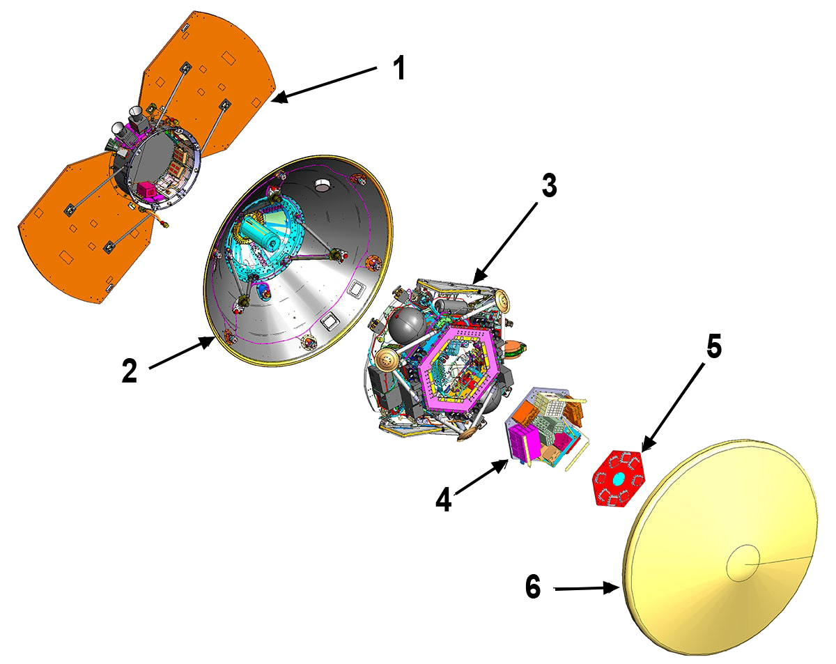 The-InSight-flight-system-comprises-the-lander,-with-its-component-deck-and-thermal-enclosure-cover,-encapsulated-in-the-aeroshell-without-english-labels